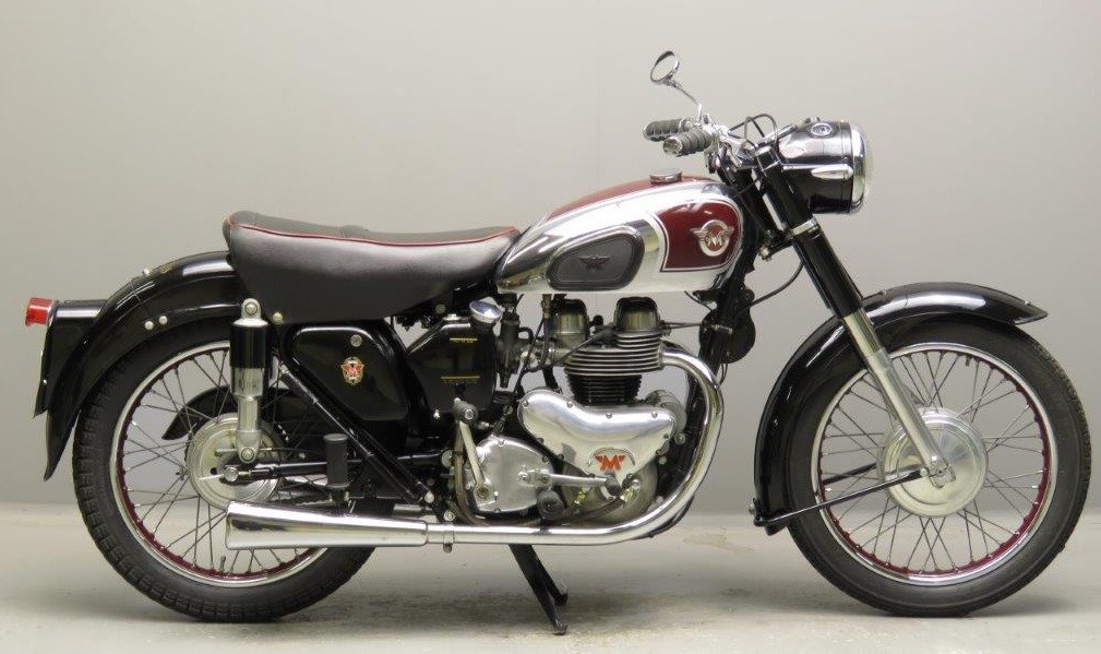 1956 Matchless G9 500cc-OHV twin motorcycle